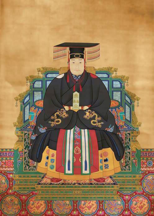 Emperor Shenzong of Ming (1563-1620)